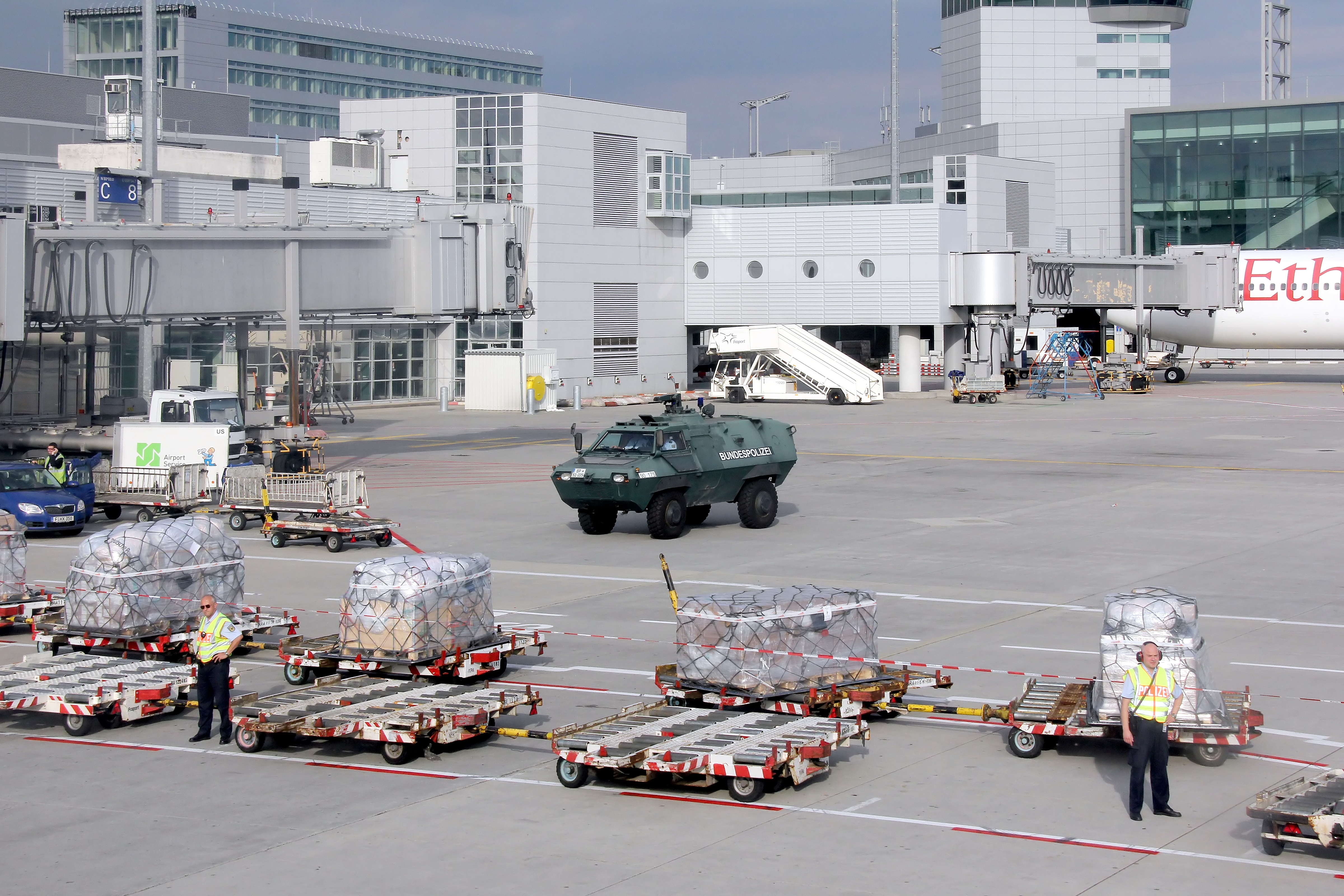 An armoured fighting vehicle and police officers of the Federal Police of Germany guard an incoming aircraft of El Al at Frankfurt airport